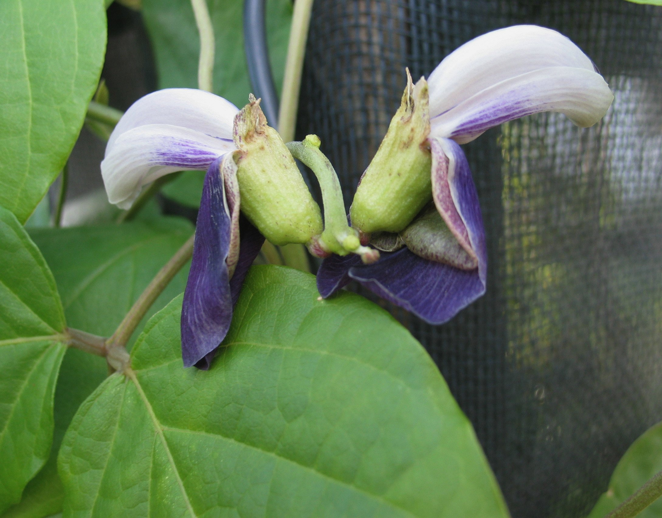 ʻĀwikiwiki or Puakauhi Fabaceae Endemic to the Hawaiian Islands Oʻahu (Cultivated) This photo was taken on Dec. 21, 2005 ʻĀwikiwiki flowers were used for lei making by early Hawaiians. Another ʻāwikiwiki (Canavalia galeata) was specifically mentioned for medicinal purposes. An infusion of leaves, shoots and bark mixed with other plants as a bath for itch, ringworm and skin disorders.